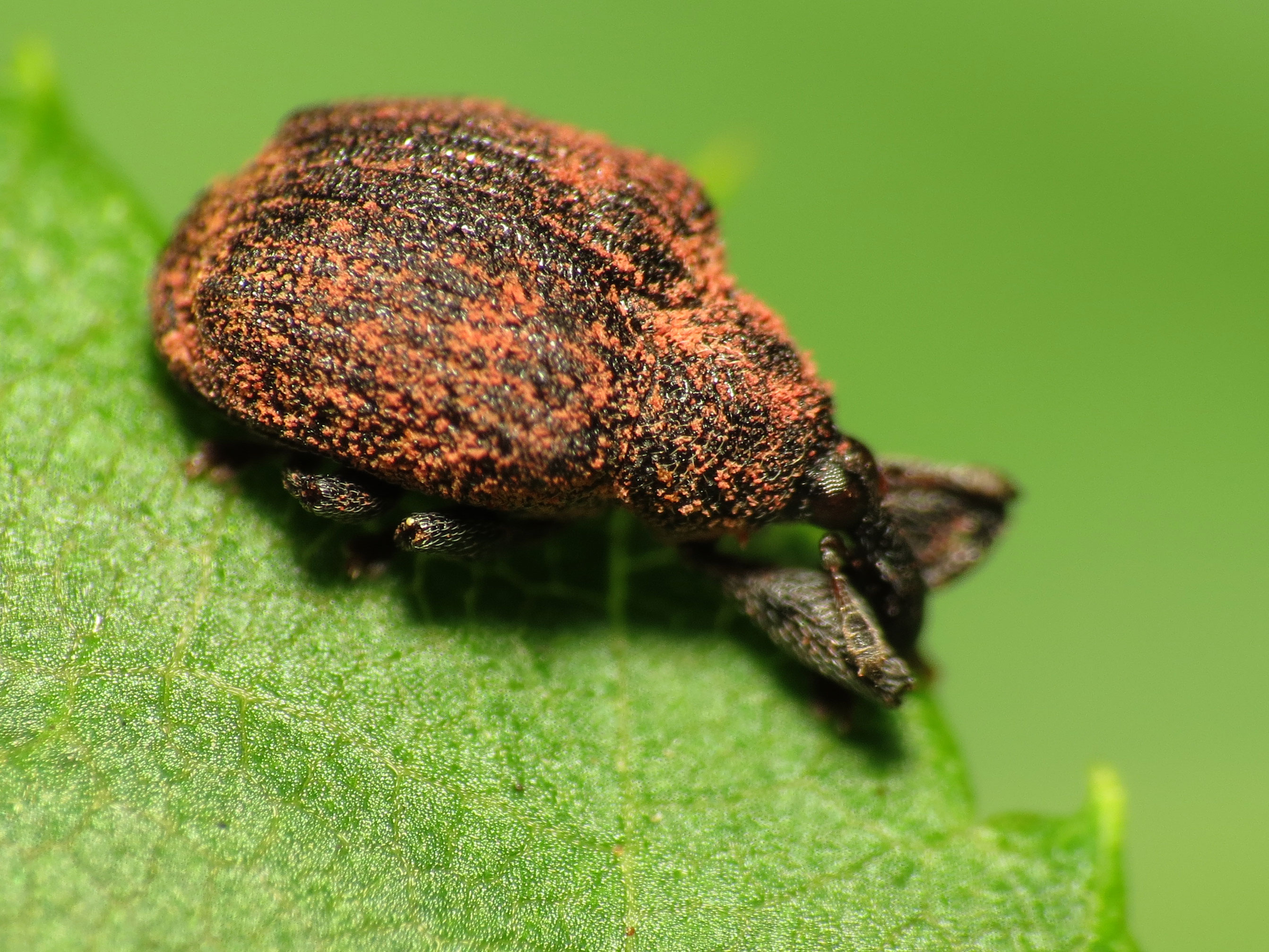 Rhinoncomimus latipes. Rock Creek Park, Washington, DC, USA. Introduced to US to control Mile-a-minute Weed, Persicaria perfoliata.